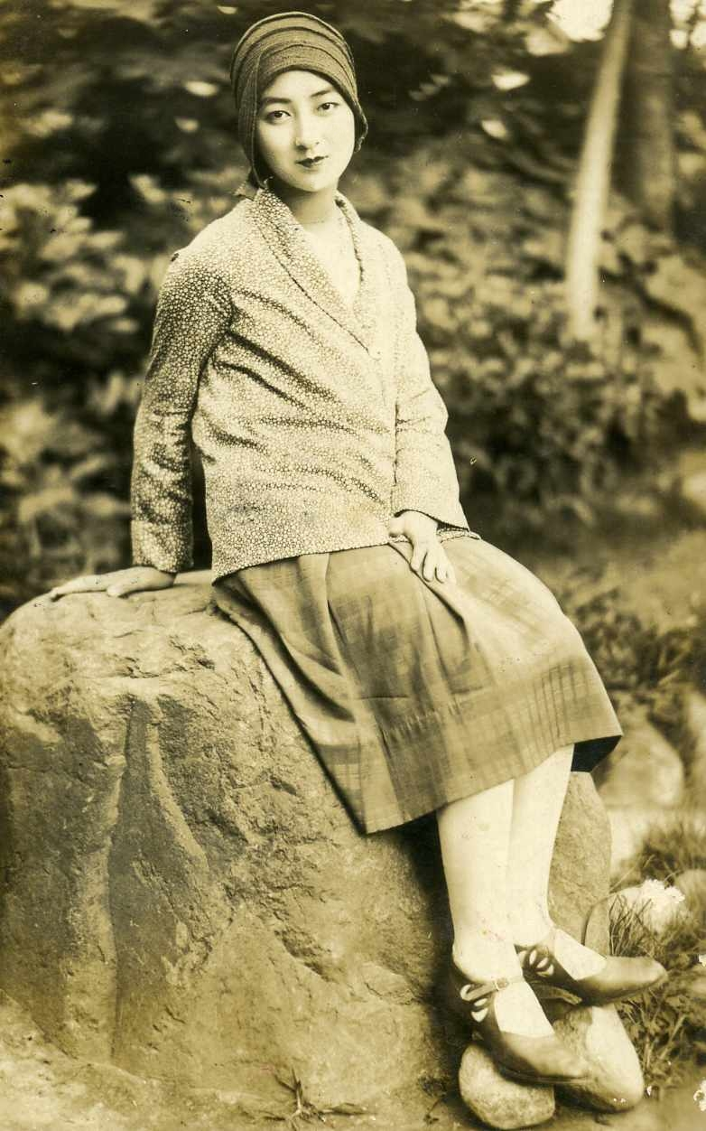 Portrait of the actress Michiko Oikawa